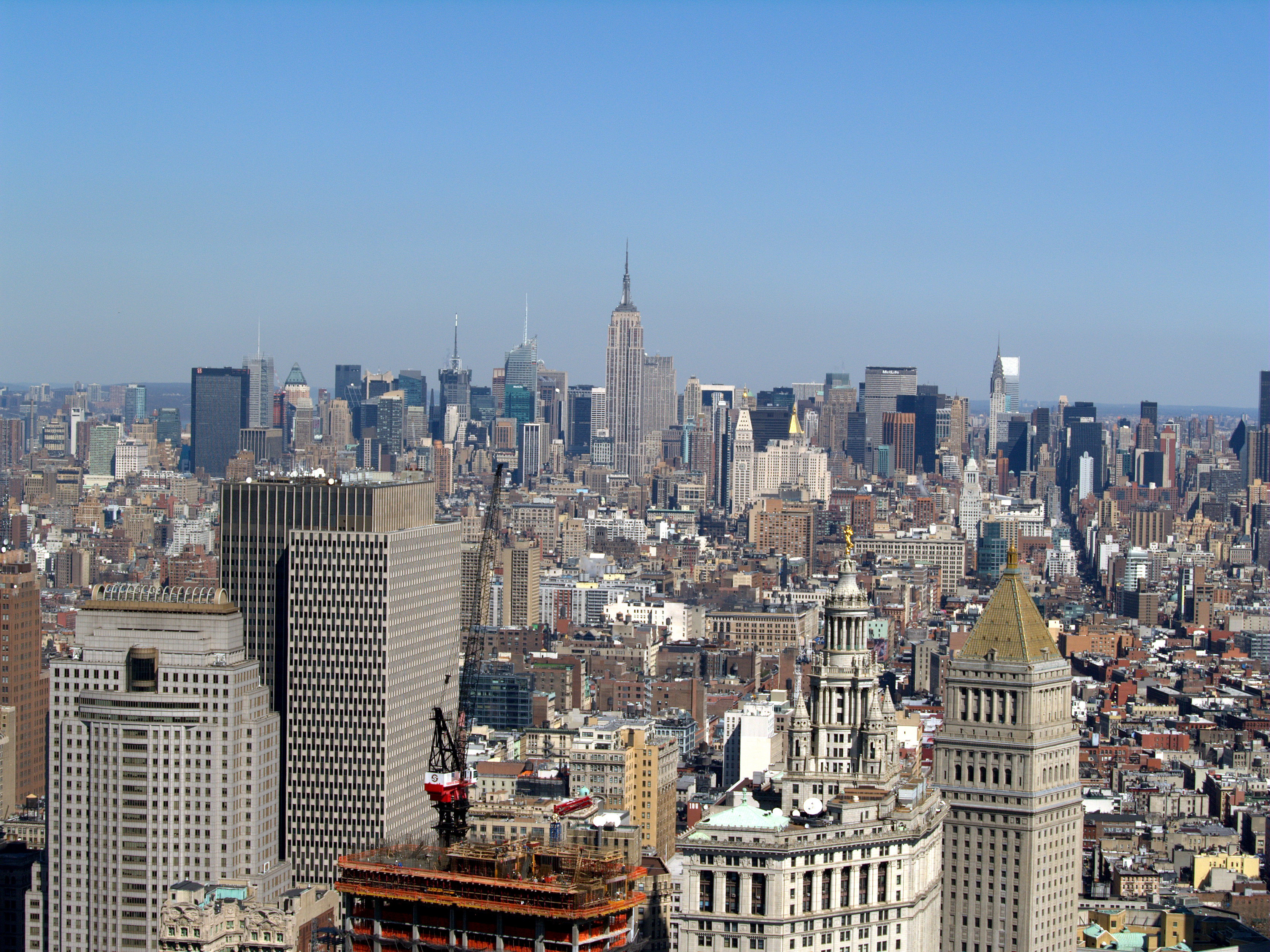 The Midtown Manhattan skyline in New York City as seen from Wall Street.